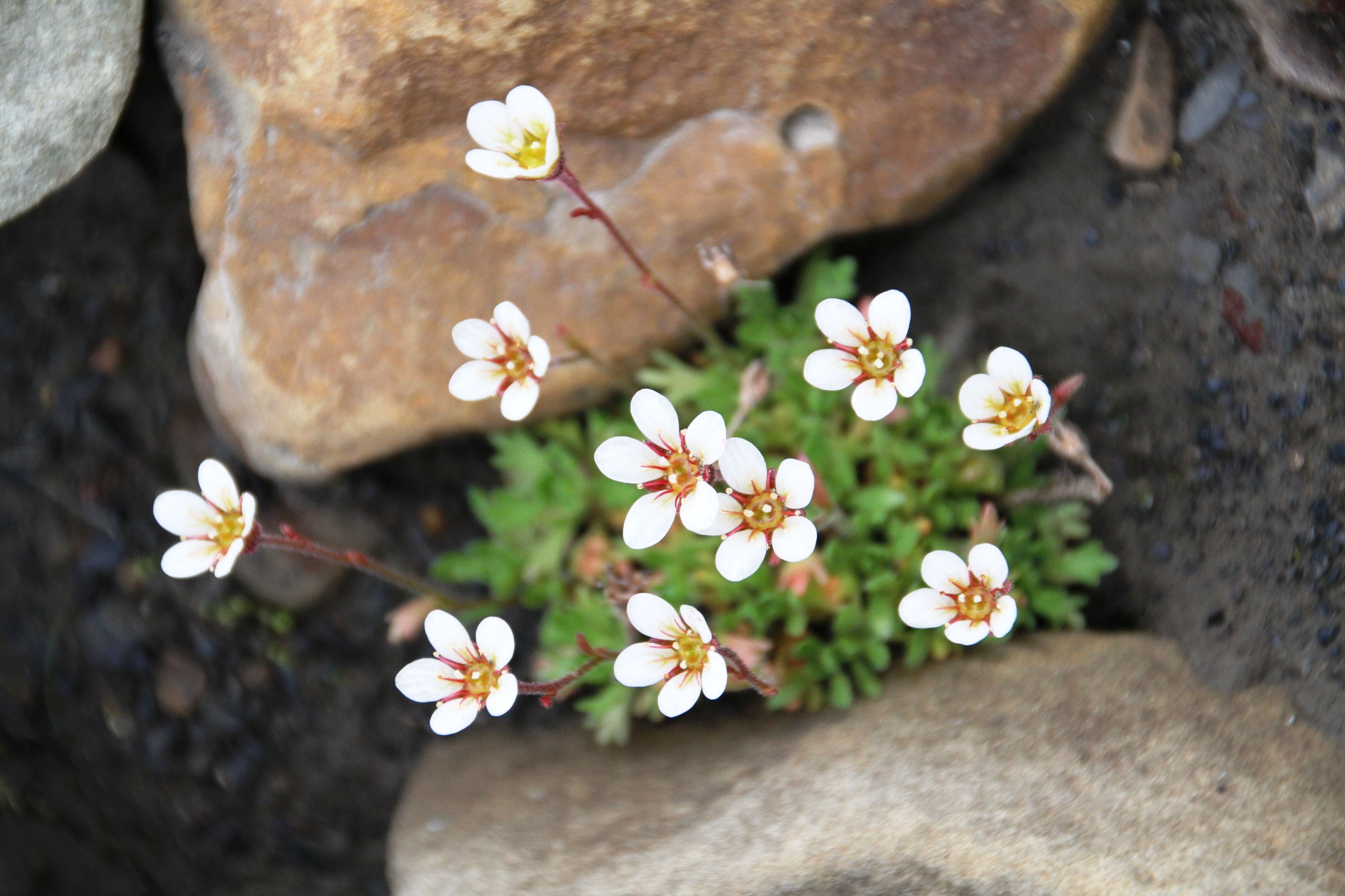 Saxifrage flowers observed at island of Spitsbergen, Svalbard (Norway). August,, 2012.